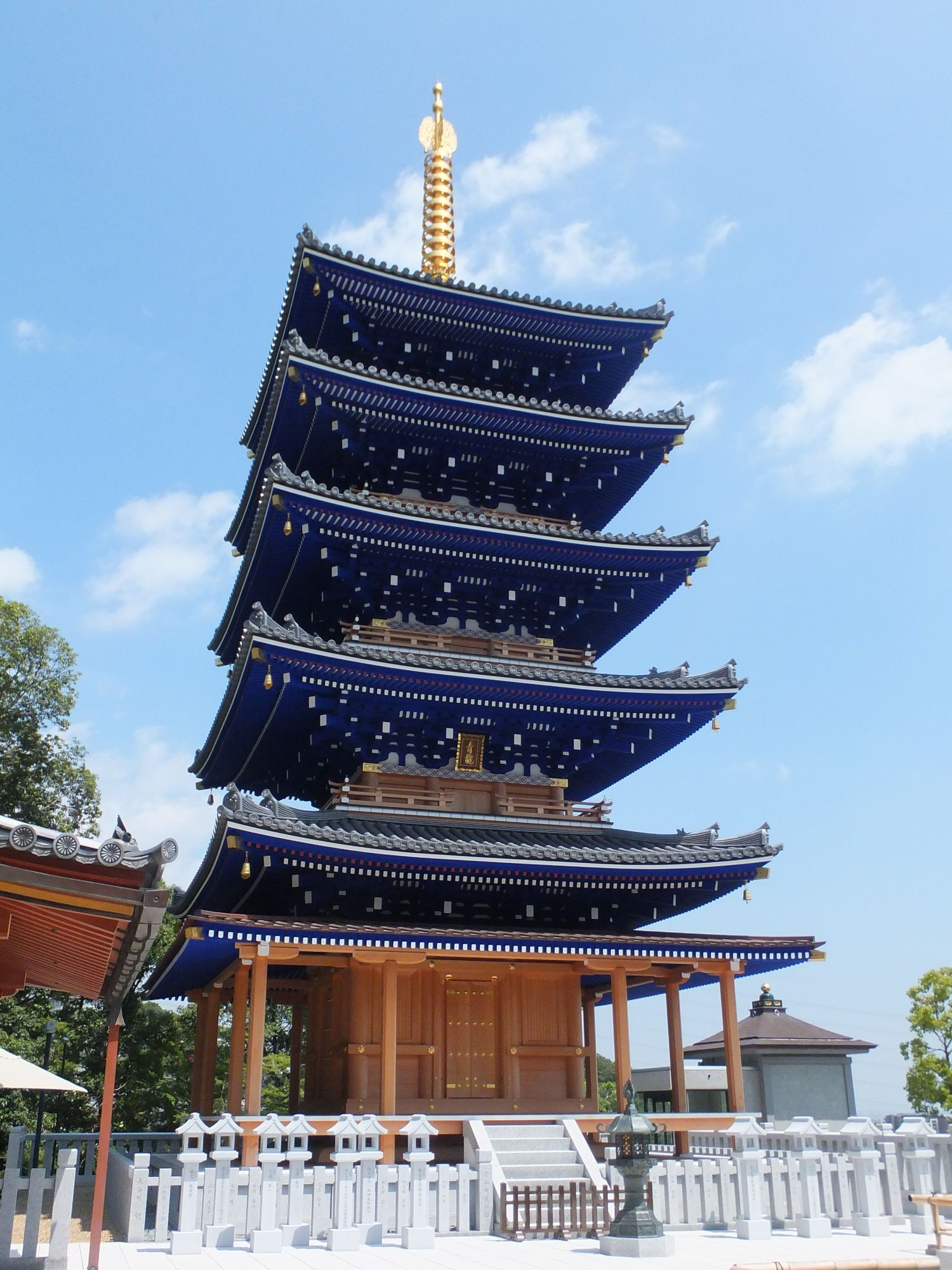 The Five-storied Pagoda at Nakayama-dera temple in Takarazuka, Hyōgo prefecture